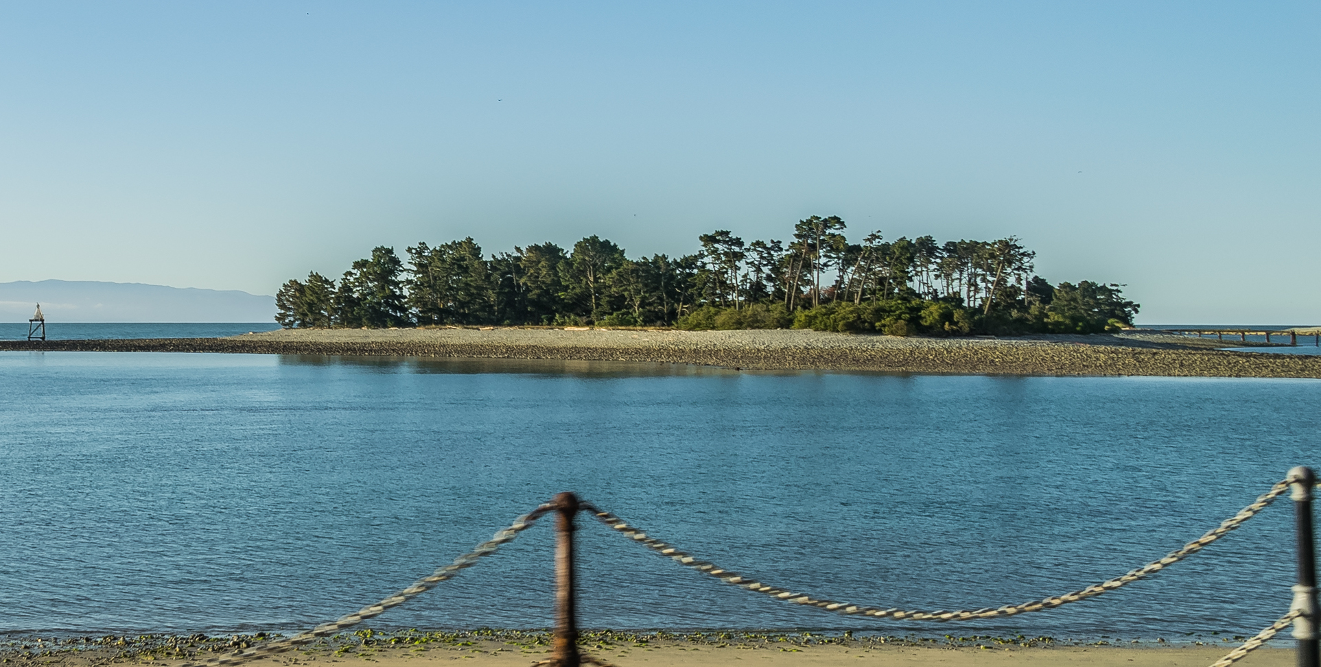 Tasman Bay near Nelson in Nelson Region, South Island of New Zealand